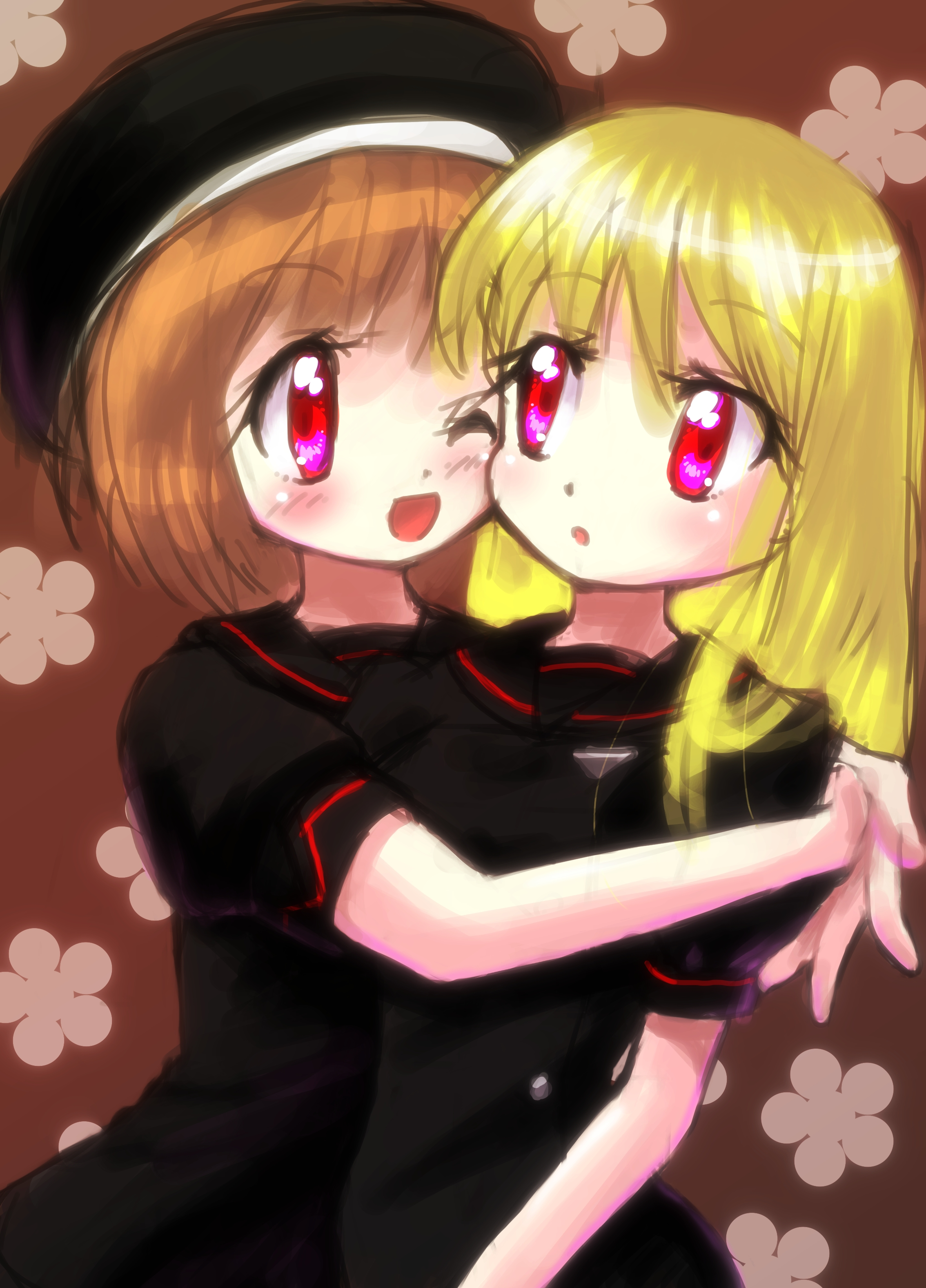 A couple of Japanese school-girls. This picture is representative of the soft-yuri, which can be found in popular yuri series like Kin-iro Mosaic. The characters are original creations.